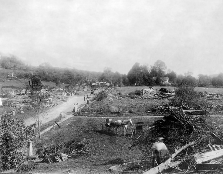 Damage from a tornado in 1904 in New Castle, New York